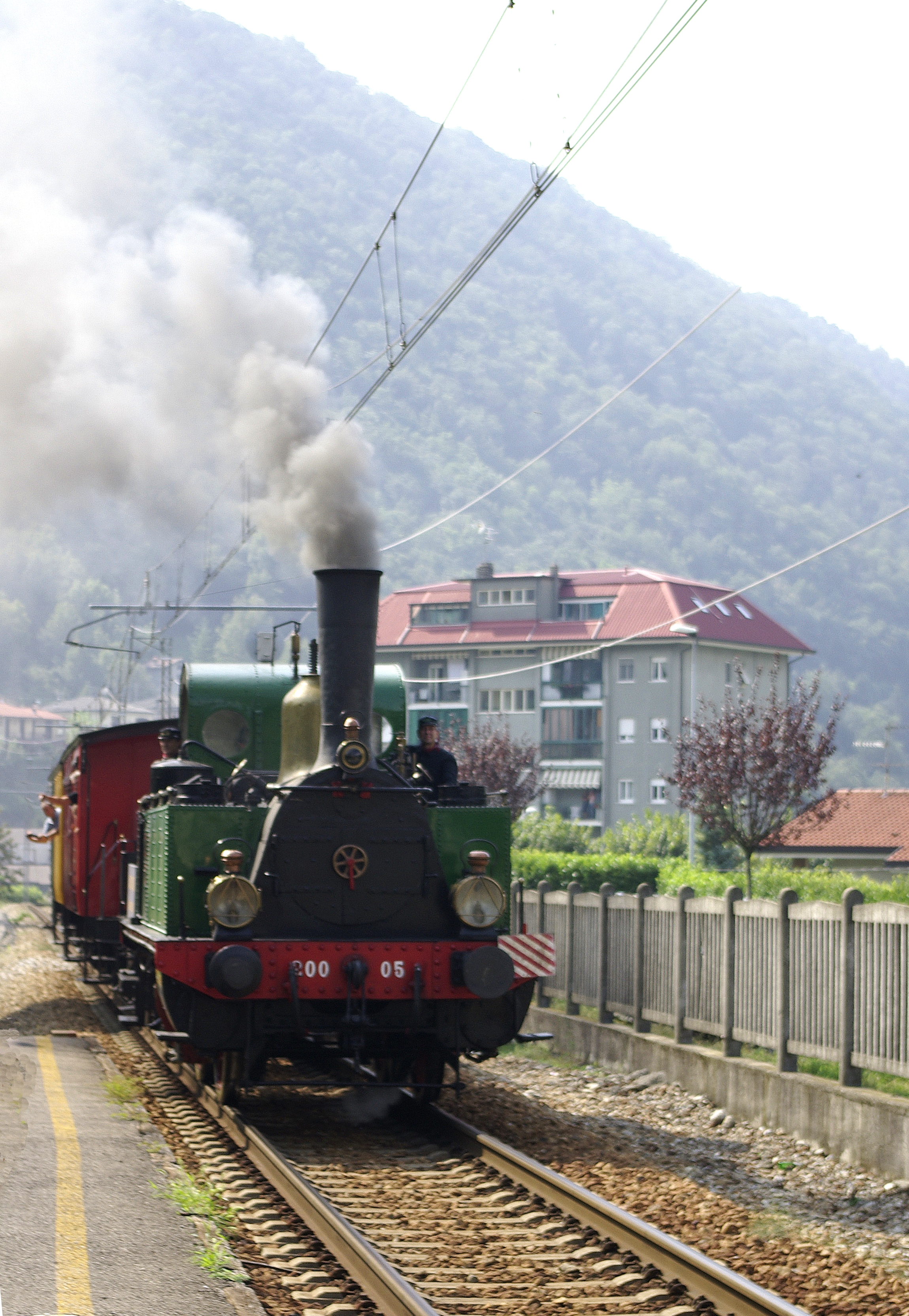 Arrival of historical steam locomotive at train station of Canzo